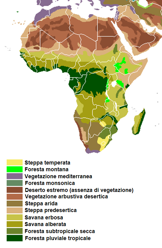 Vegetation in Africa. Derivative work of this file.